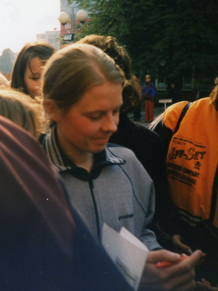 Patricia Kelly in front of a hotel in Ostrava, Czech Republic